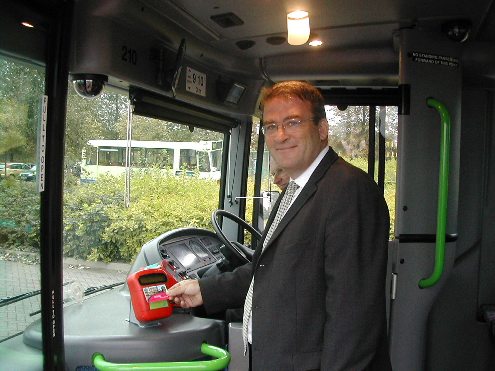 Tony McNulty visited Nottingham to show many passengers how to use an easyrider anytime card at NCT Travel Centre.